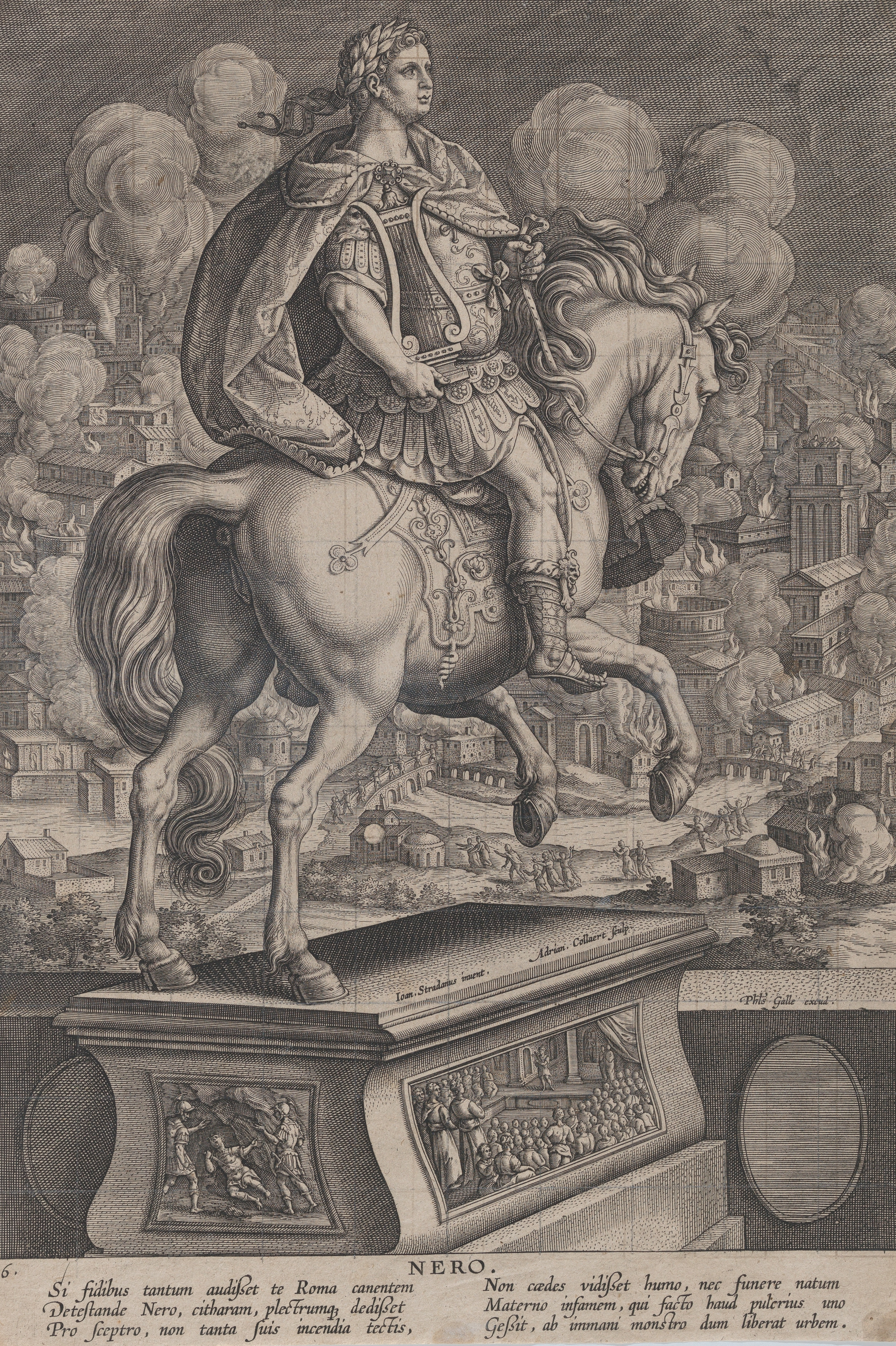 Adriaen Collaert — Equestrian statue of Nero, engraving 1587